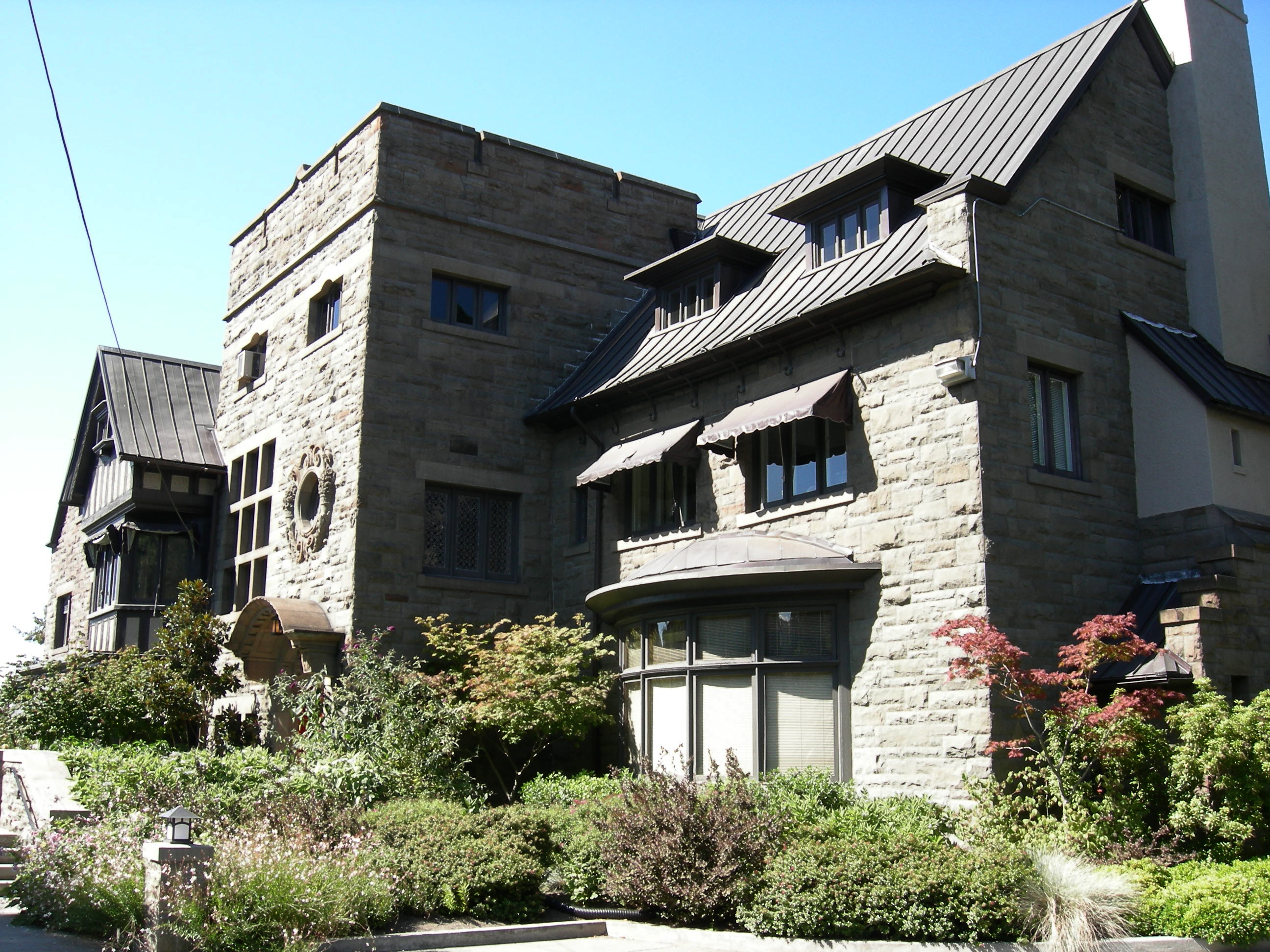 1551 10th Avenue E., Capitol Hill, Seattle, Washington. The Eliza Ferry Leary House (a.k.a. Diocesan House), headquarters of the Episcopal Diocese of Olympia, in the same complex of buildings as St. Mark's Episcopal Cathedral. Listed on the National Register of Historic Places, ID #72001274. 2-1/2 story mansion built 1904-07, from designs by Alfred Bodley. Eliza Ferry Leary lived here until her death in 1935. The Red Cross used the house as its headquarters until 1948, when it was purchased by the Episcopal Diocese of Olympia.[1]